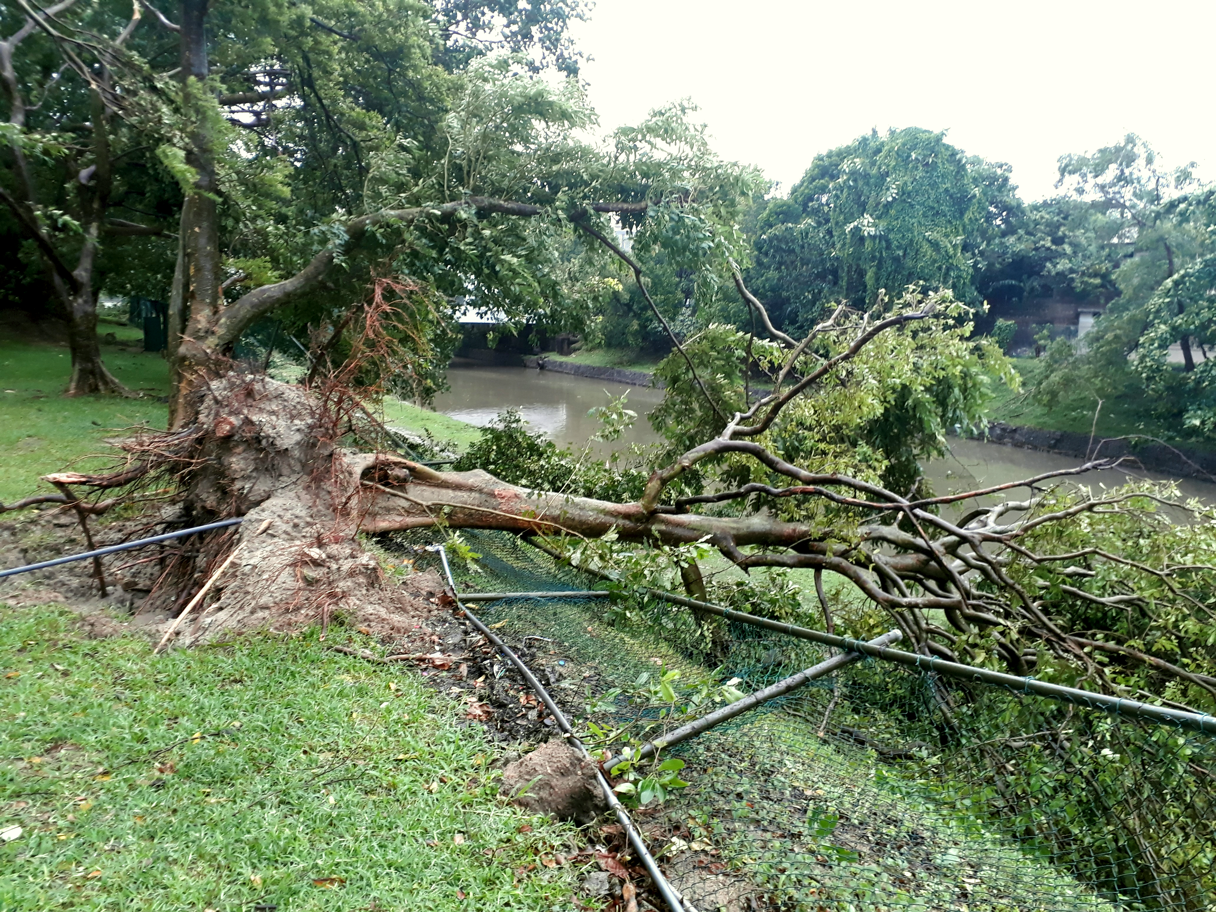 Wind damage caused by Cyclone Ockhi when it was a depression on 30th November, over Sri Lanka.